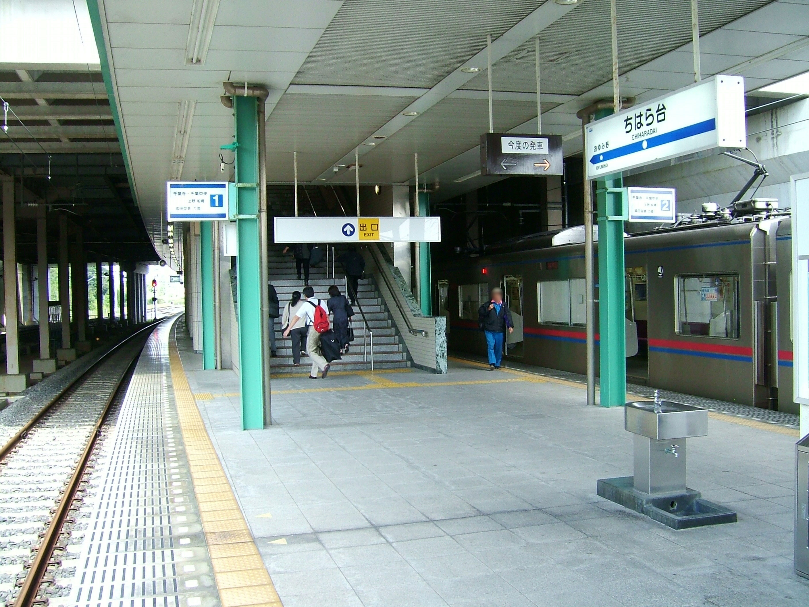 The platform at Chiharadai Station on the Keisei Chihara Line in Ichihara city, Chiba prefecture, Japan